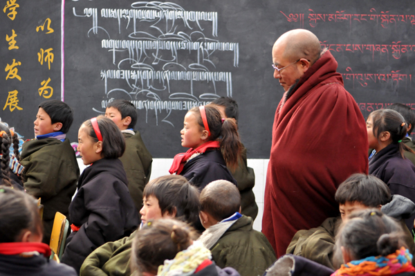 Khenpo at the Wisdom and Compassion Elementary School in Drakgo at east Tibet